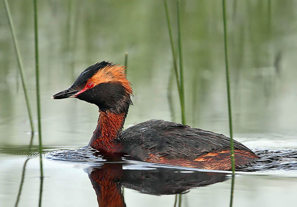 One of my favourite Scottish birds. In Scotland they favour kettle lochans/lochs with fringing sedges and good populations of aquatic insects and small fish in the drier eastern Highlands. This image was taken in Speyside.